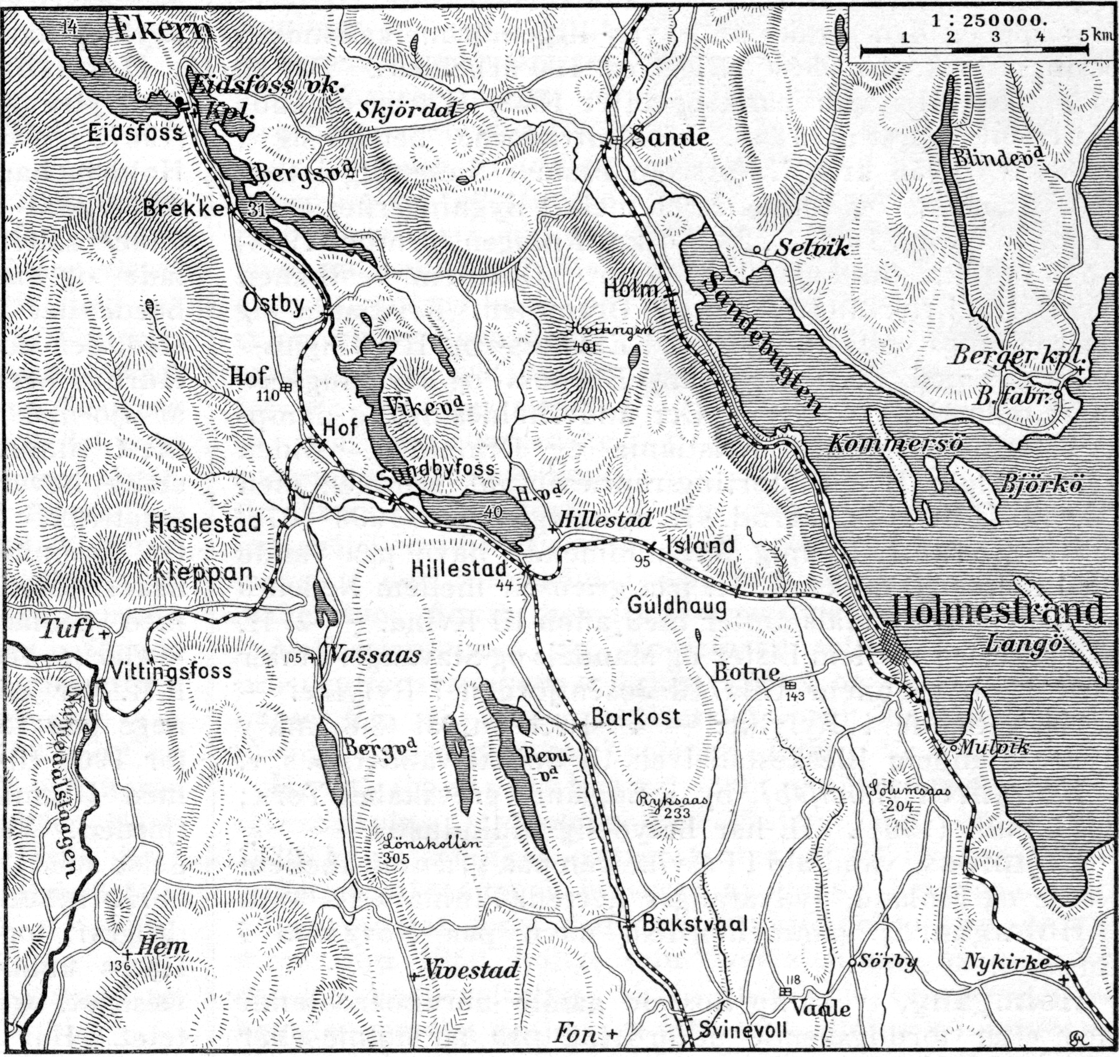 Map of the Holmestrand Area in Norway 1910